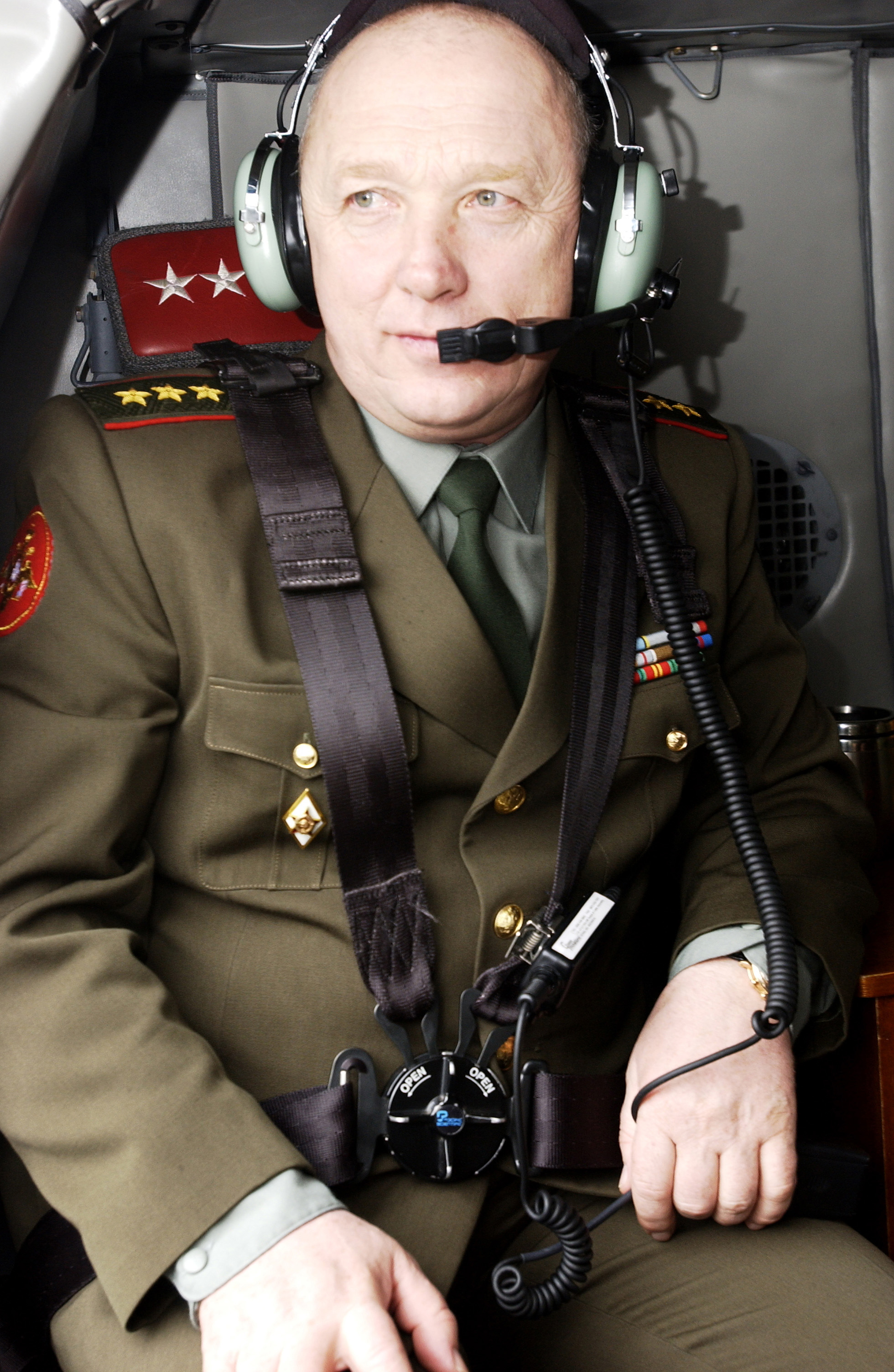 Colonel Generall Aleksey F. Maslov, commander, Russian Ground Forces, awaits take-off from the Grafenwoehr Army Airfield prior to flying to Heidelberg, Germany. Maslov was visiting U.S. Army Europe at the invitation USAREUR's commander, B.B. Bell.